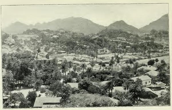 View over Mount Abu, capital of the Rajputana Agency in the Indian native state of Sirohi (ca. 1898)